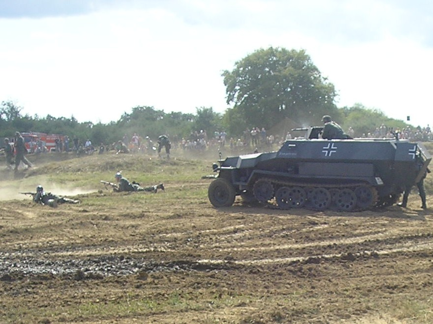 WWII battle (Slovak National Uprising) reenactment. Military museum Lesany, Czech republic.